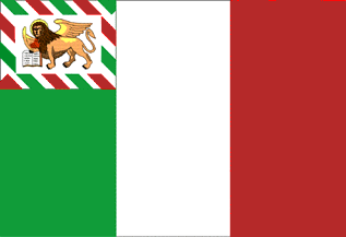 Flag of the Republic of Venice 1848-9.